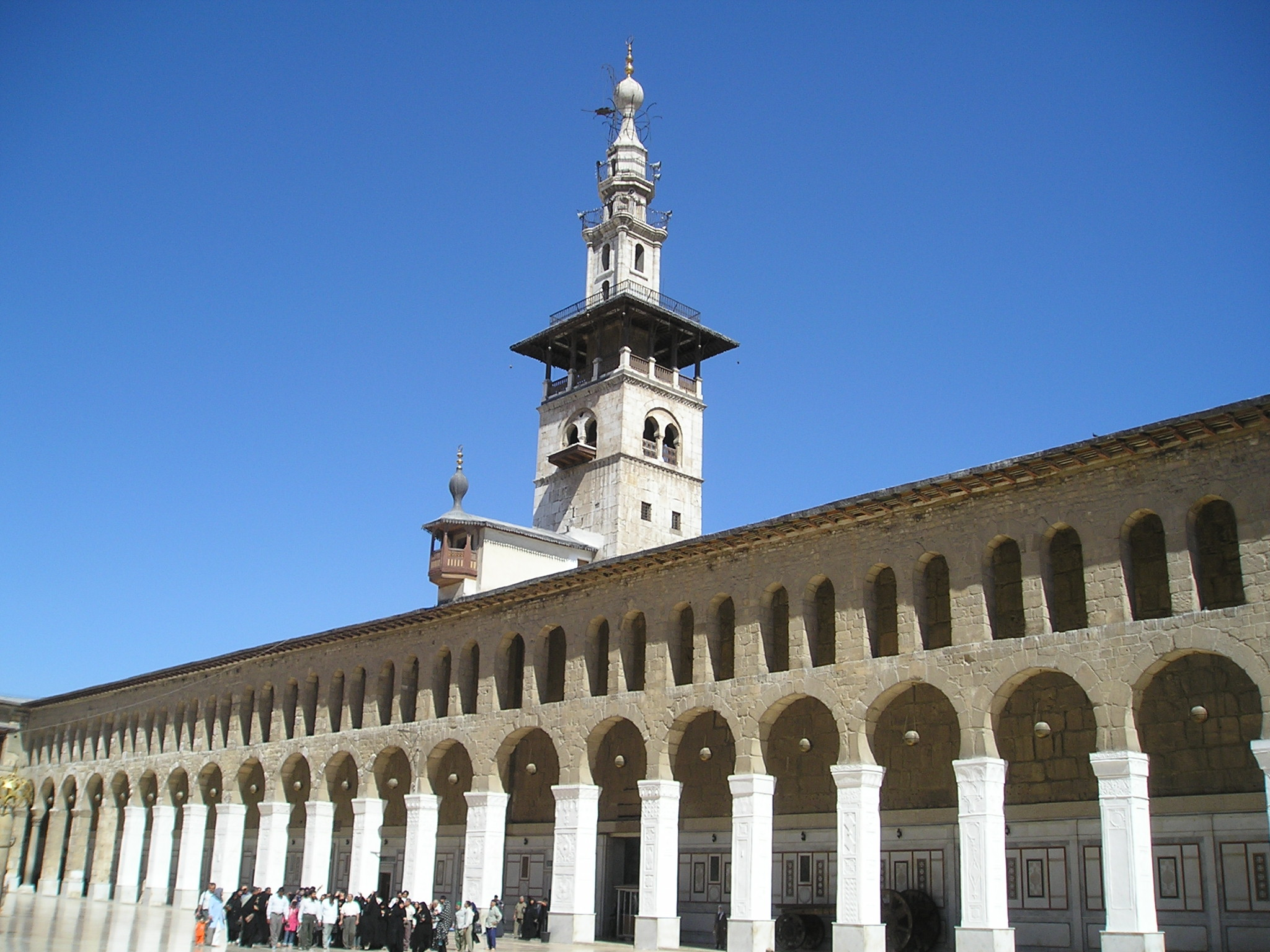 Damascus, Syria - Umayyad Mosque, northern arcade of the courtyard and the Minaret of the Bride.